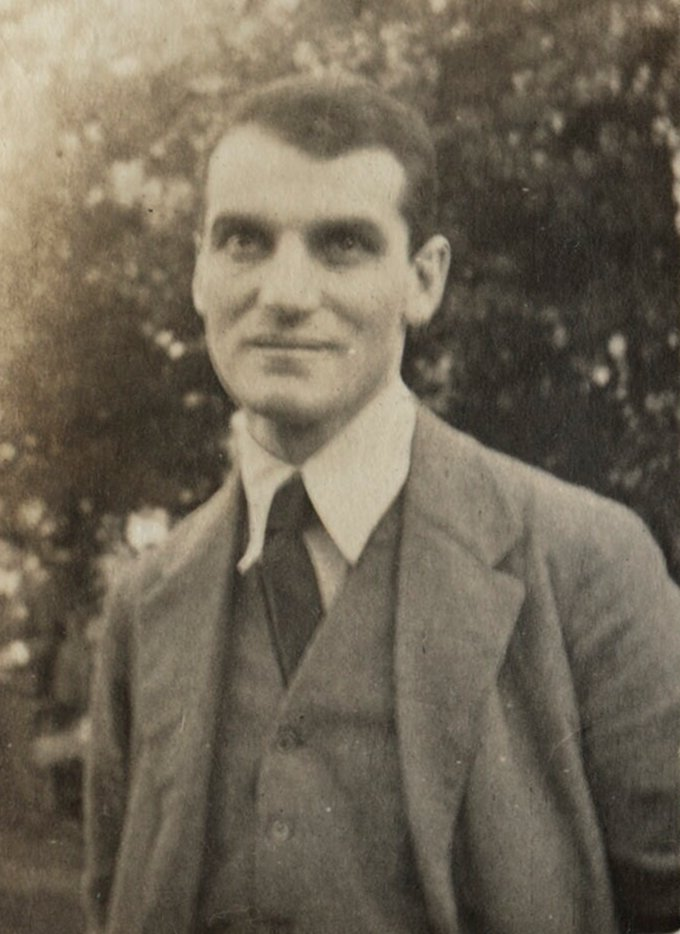 Lady Ottoline Morrell (1873-1938), vintage snapshot print/NPG Ax140601. John Middleton Murry, 1917